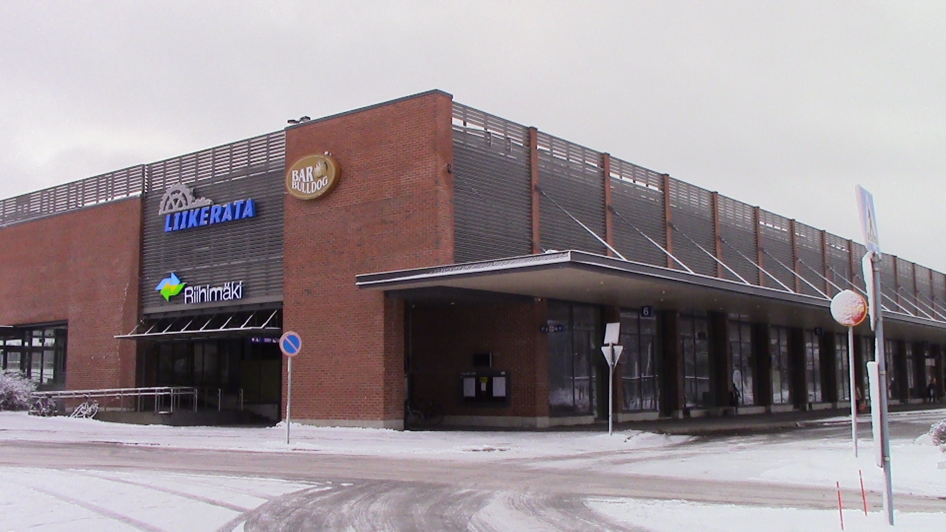 Riihimäki travel center seen from Rautatietori. It was built in 2009.